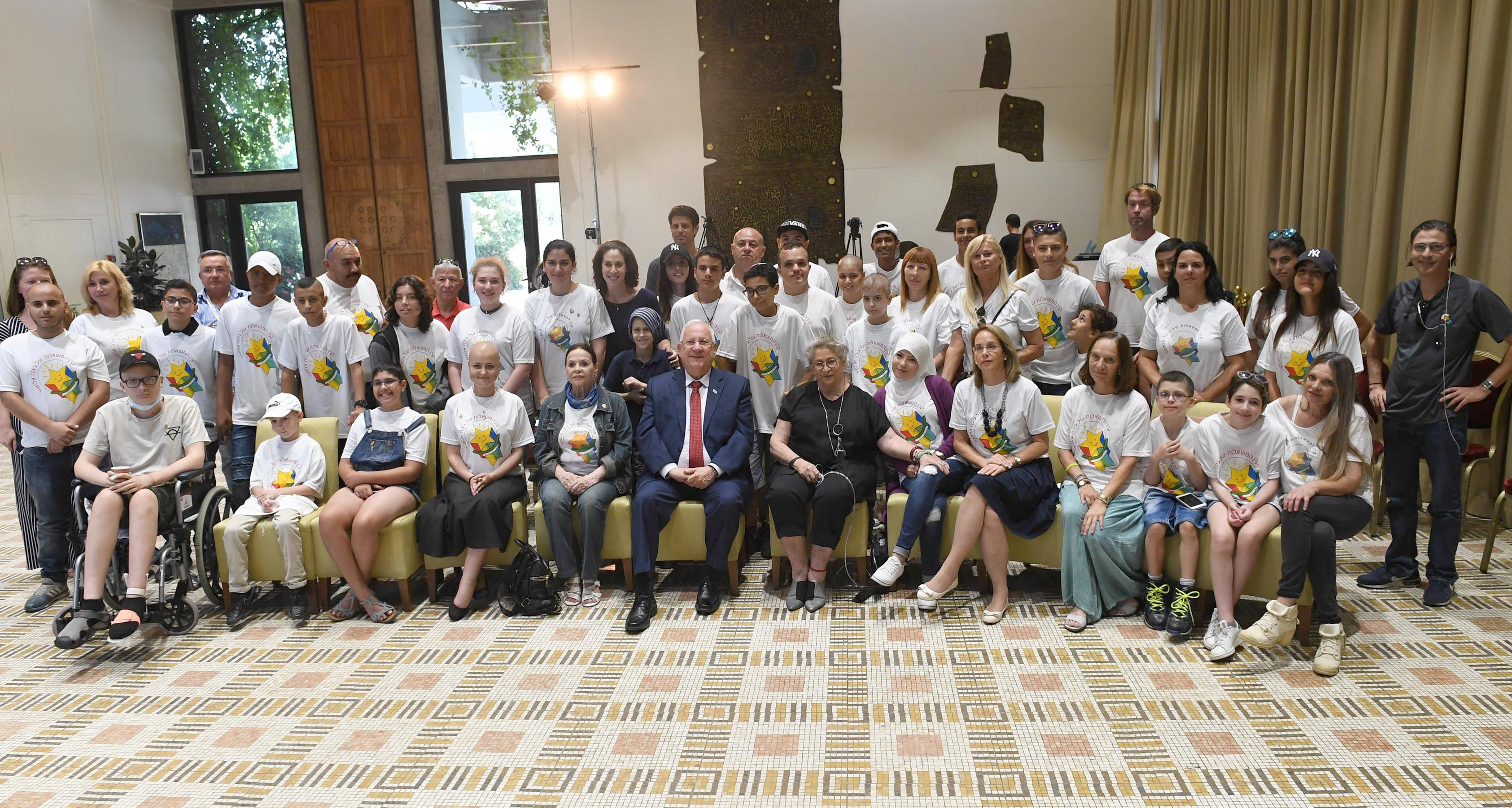 The President of Israel, Reuven Rivlin, and his wife host Gila Almagor's Wish Fund. Sunday, September 10, 2017. Photo Credit: Mark Neyman / GPO.